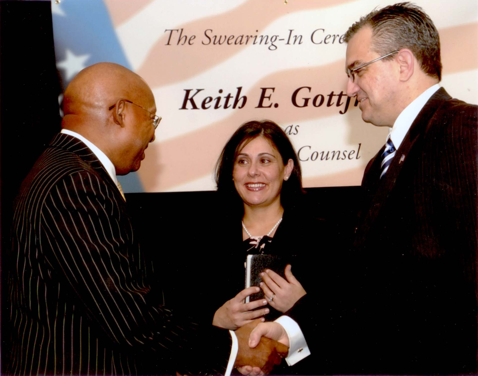 Keith Gottfried Being Adminstered the Oath of Office by HUD Secretary Alphonso Jackson